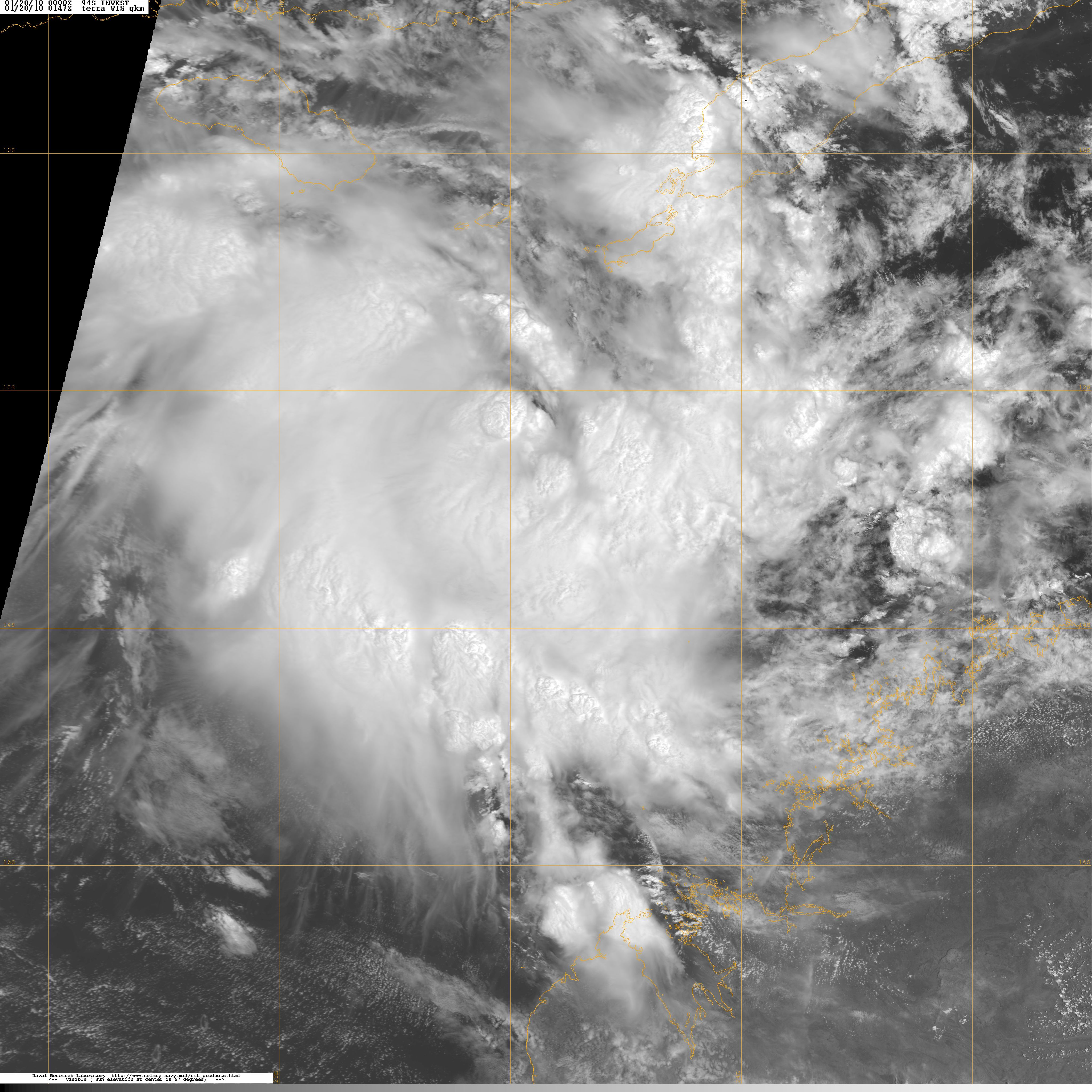 Tropical Cyclone Magda on January 20, 2010.